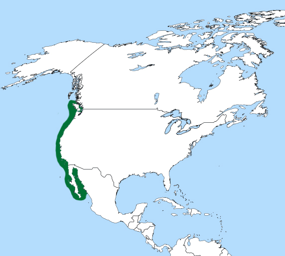 Range of Brandt's Cormorant